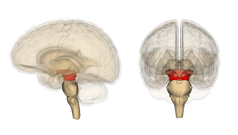 midbrain. Images are from Anatomography maintained by Life Science Databases(LSDB).